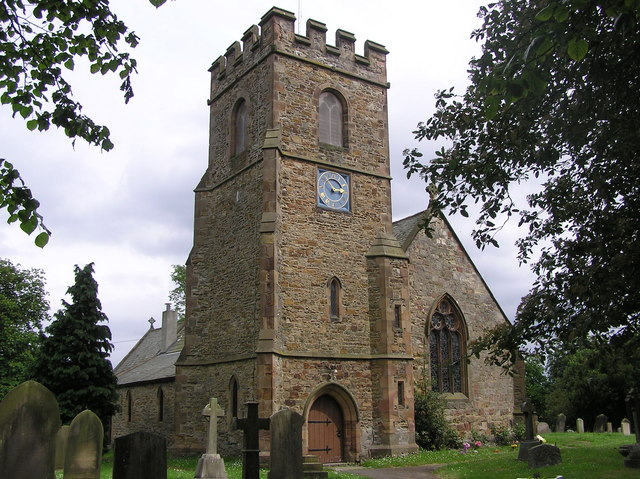 St Peter's parish church, Bishopton, County Durham. View from the northwest, showing the west tower added when the church was rebuilt in 1847.